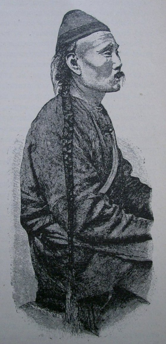 A sketch of typical Manza (Chinaman from Ussurian Region of Russia)